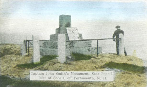 Captain John Smith's Monument, Star Island, Isles of Shoals, New Hampshire; from a c. 1914 postcard. It was built in 1864 to commemorate the 250th anniversary of Smith's visit to what he named Smith's Isles, and in subsequent years argued would make a perfect place to establish a colony devoted to fishing.